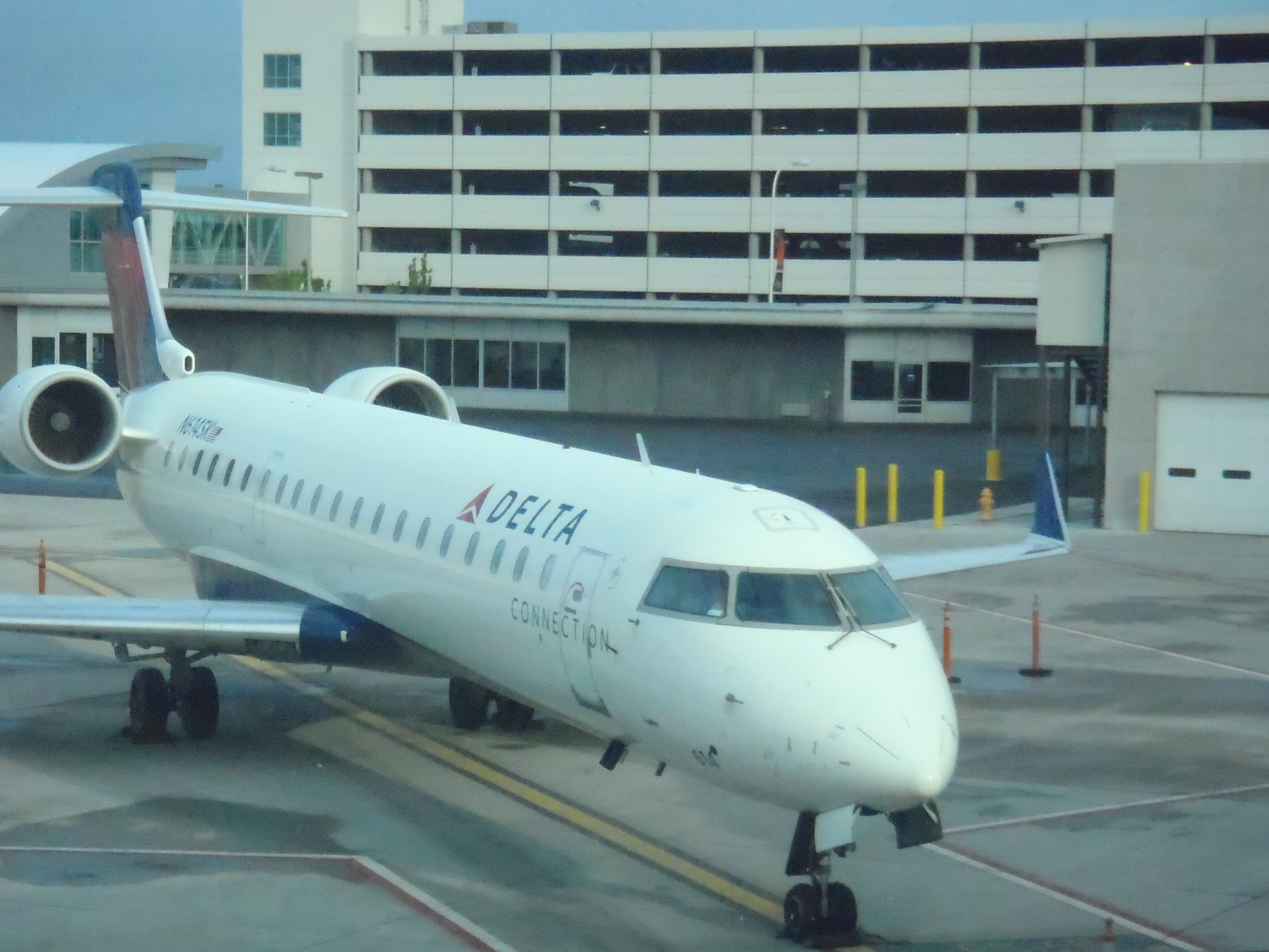 Delta Connection CRJ-700 at Spokane Int'l Airport.